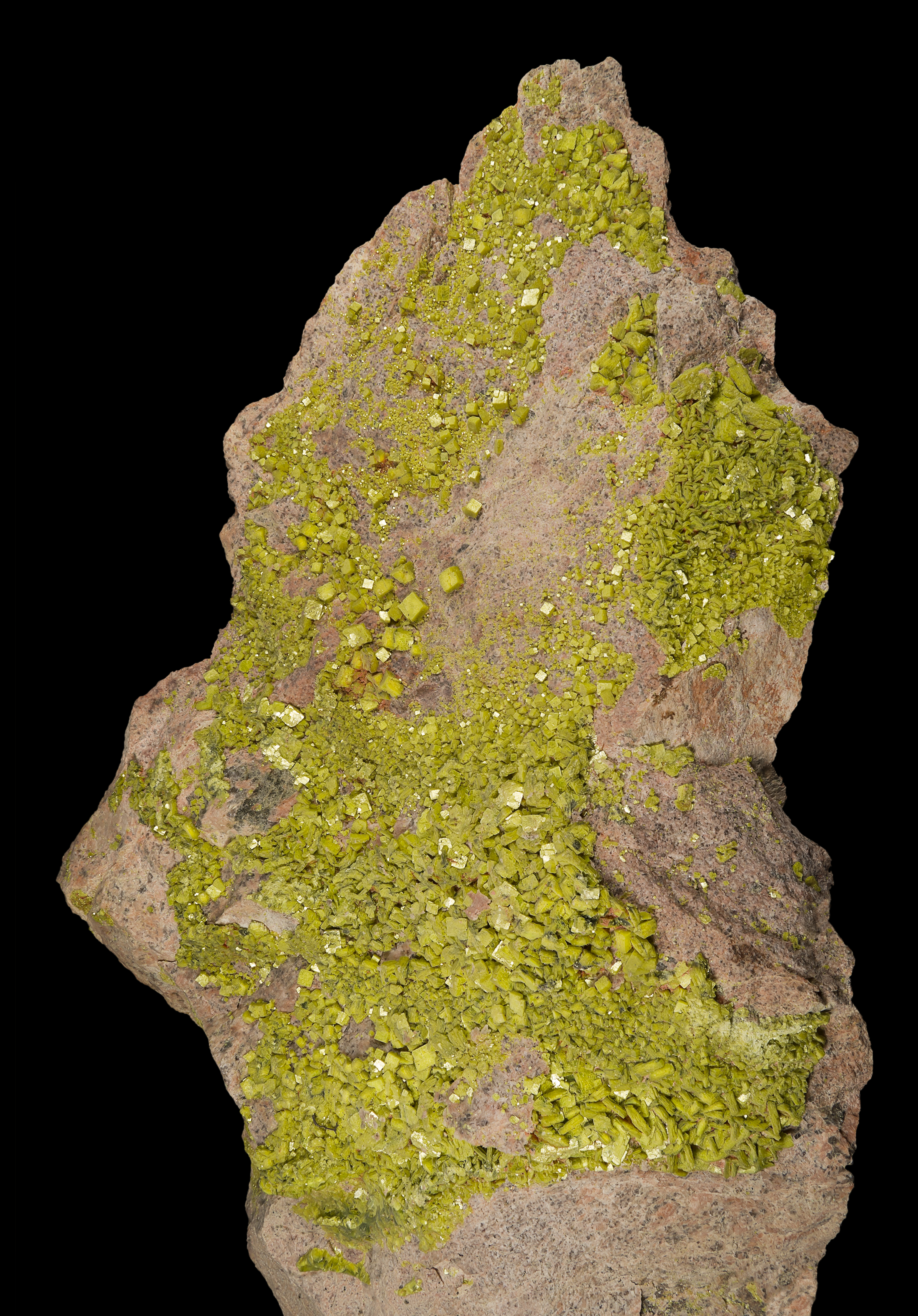 Autunite Locality: Les Oudots Quarry, Grury, Issy-l'Evêque, Saône-et-Loire, Burgundy, France:: Taille : 30 x 15 x 7 cm